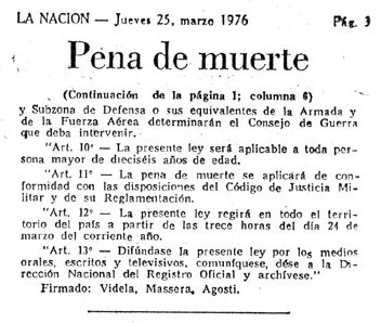 Death penalty in Argentina 1976. Dirty War